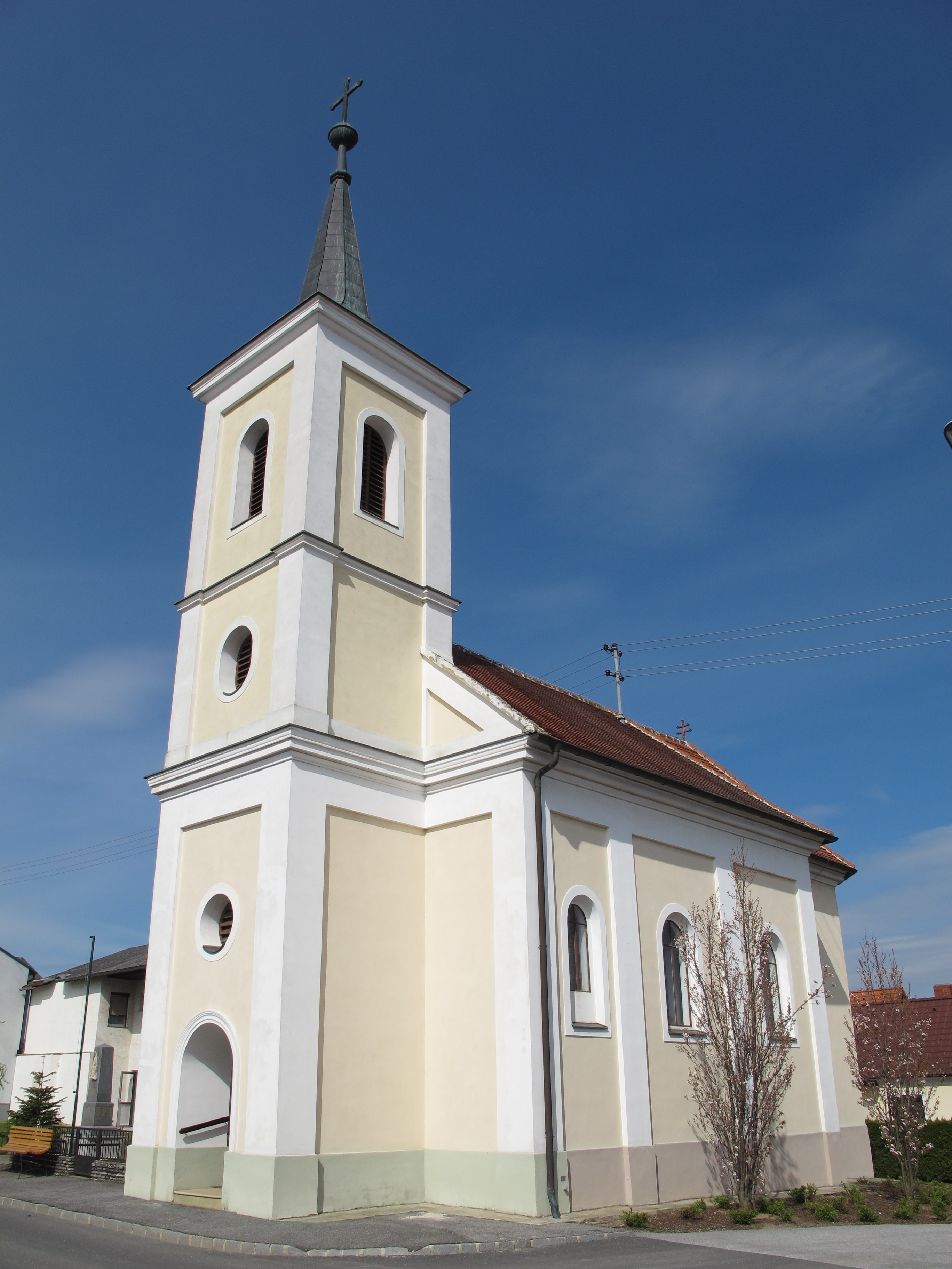 Kirche Miedlingsdorf